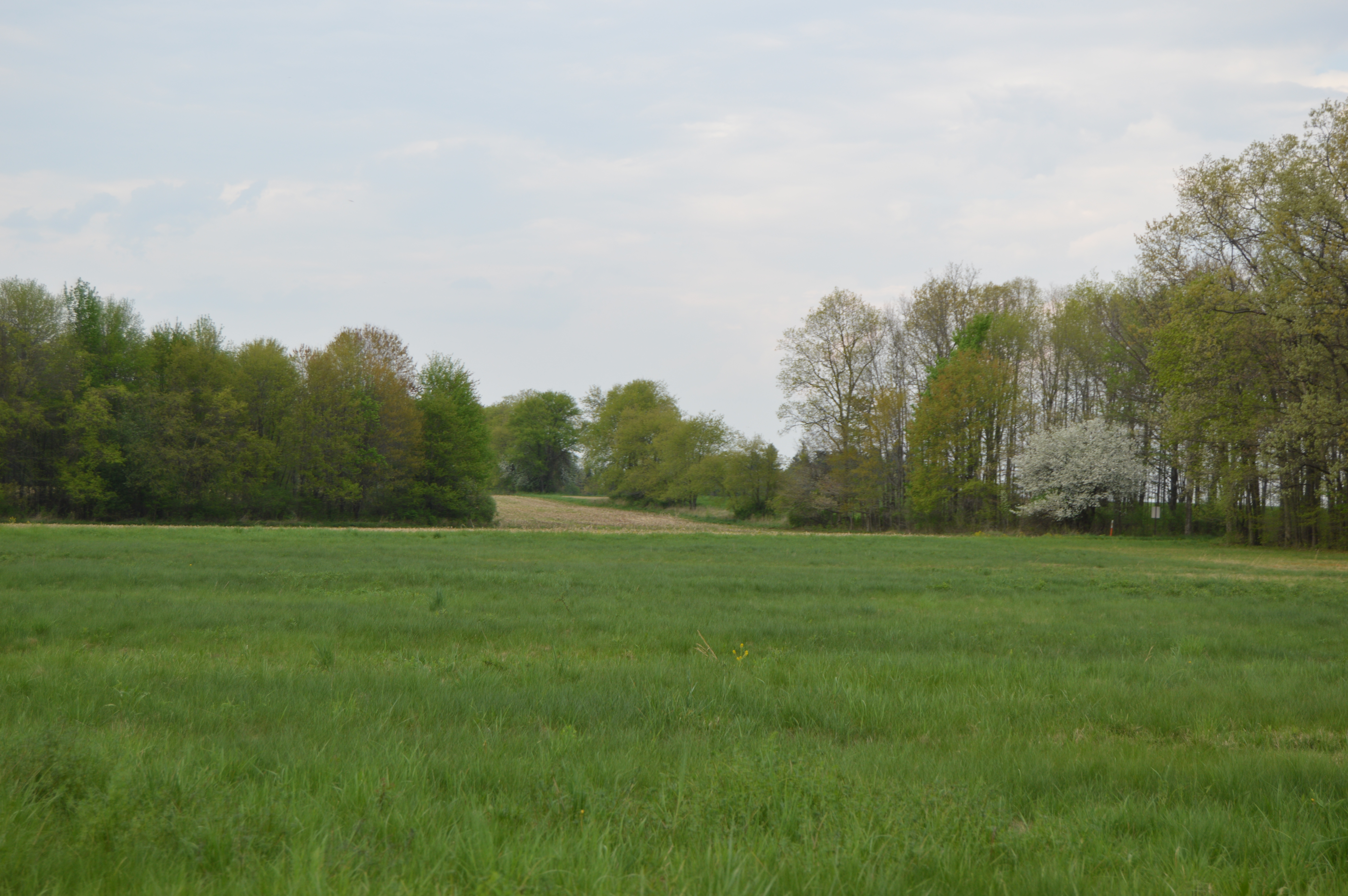 Looking north from Wolford Road east of the Pipestem Road intersection, northwest of West Sunbury, in south-central Cherry Township, Butler County, Pennsylvania, United States.